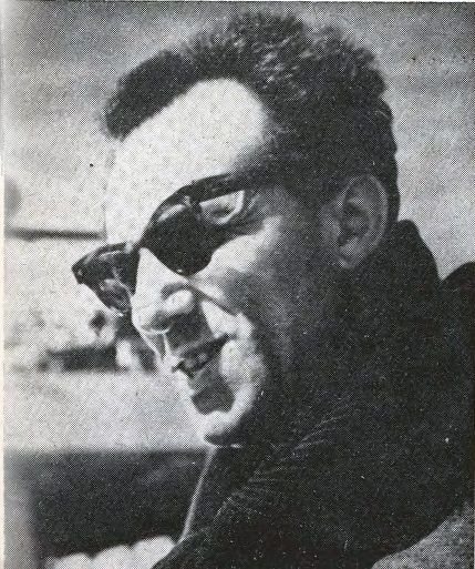 Andrzej Munk (1921-1961), Polish film director, one of the finest contributors to the Polish film school.